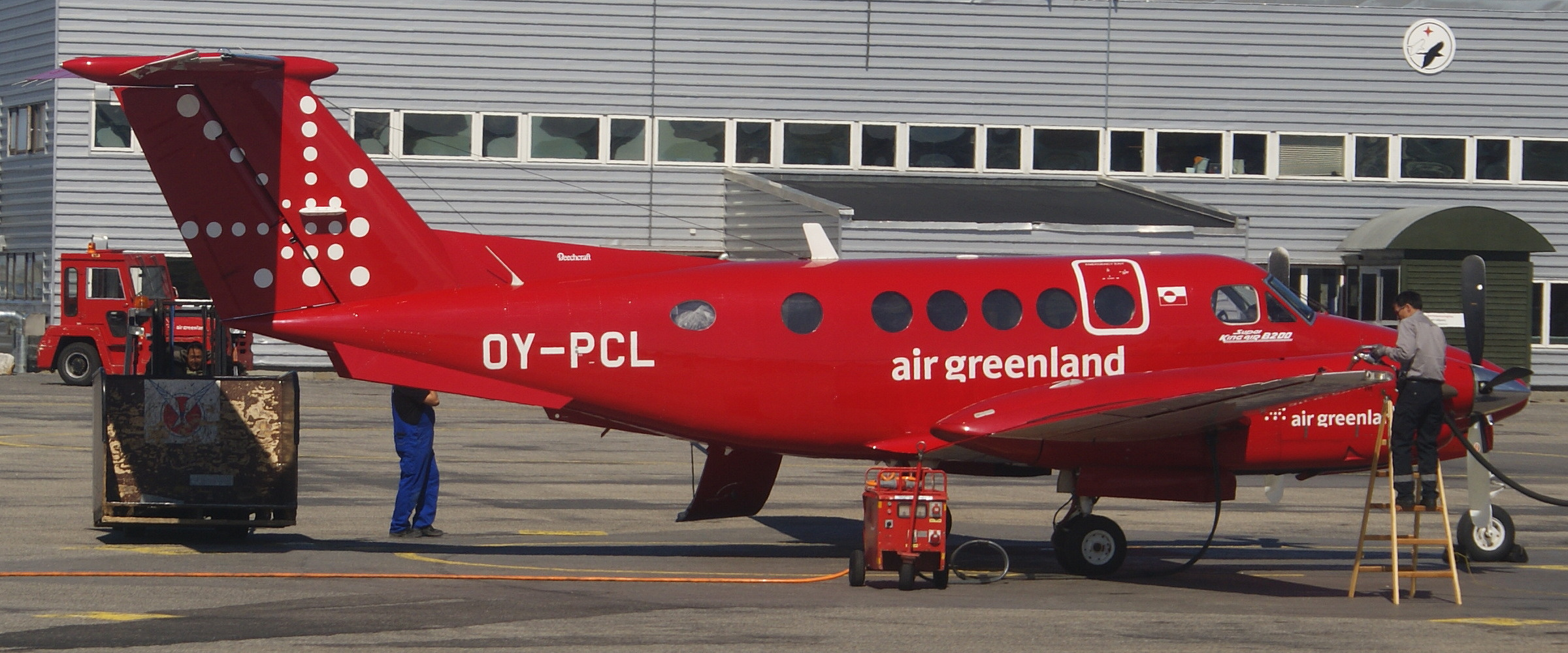 Air Greenland Beechcraft B200 King Air "Amaalik" at Nuuk Airport, Greenland. Photographed from the taxiing Air Greenland Dash-7 "Sululik".